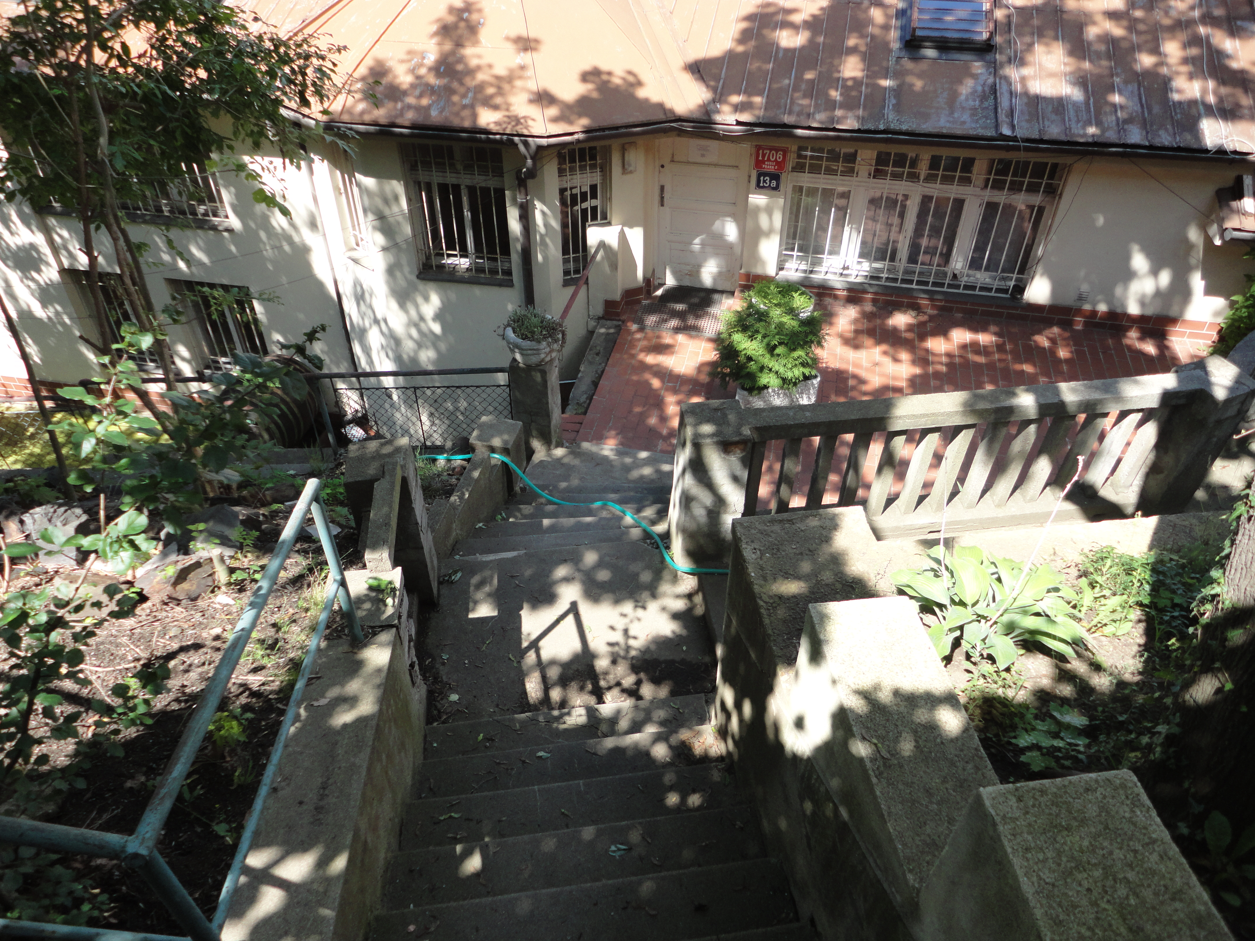 Prague 2, Czech Republic